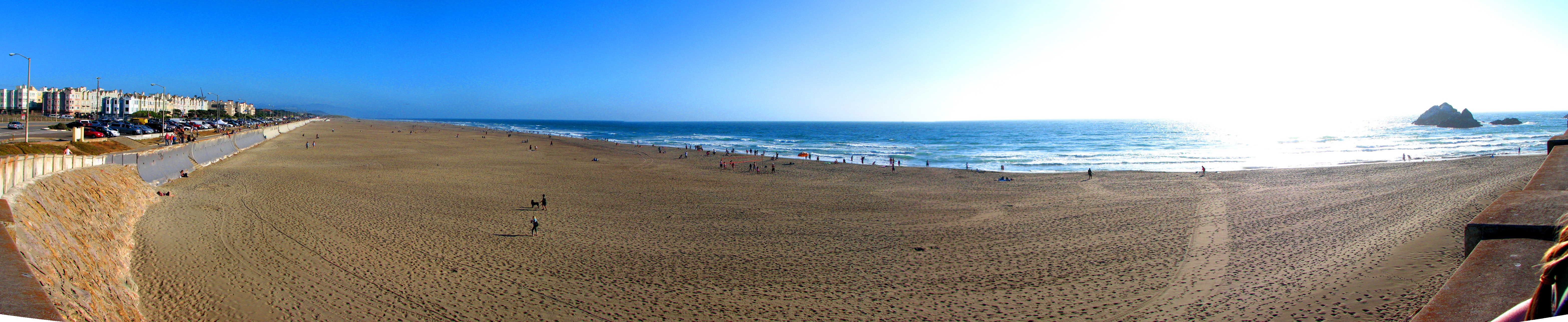 A panorama of Ocean Beach on the western side of San Francisco taken from Cliff house